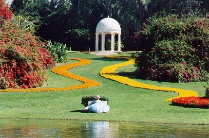 Cypress Gardens Florida